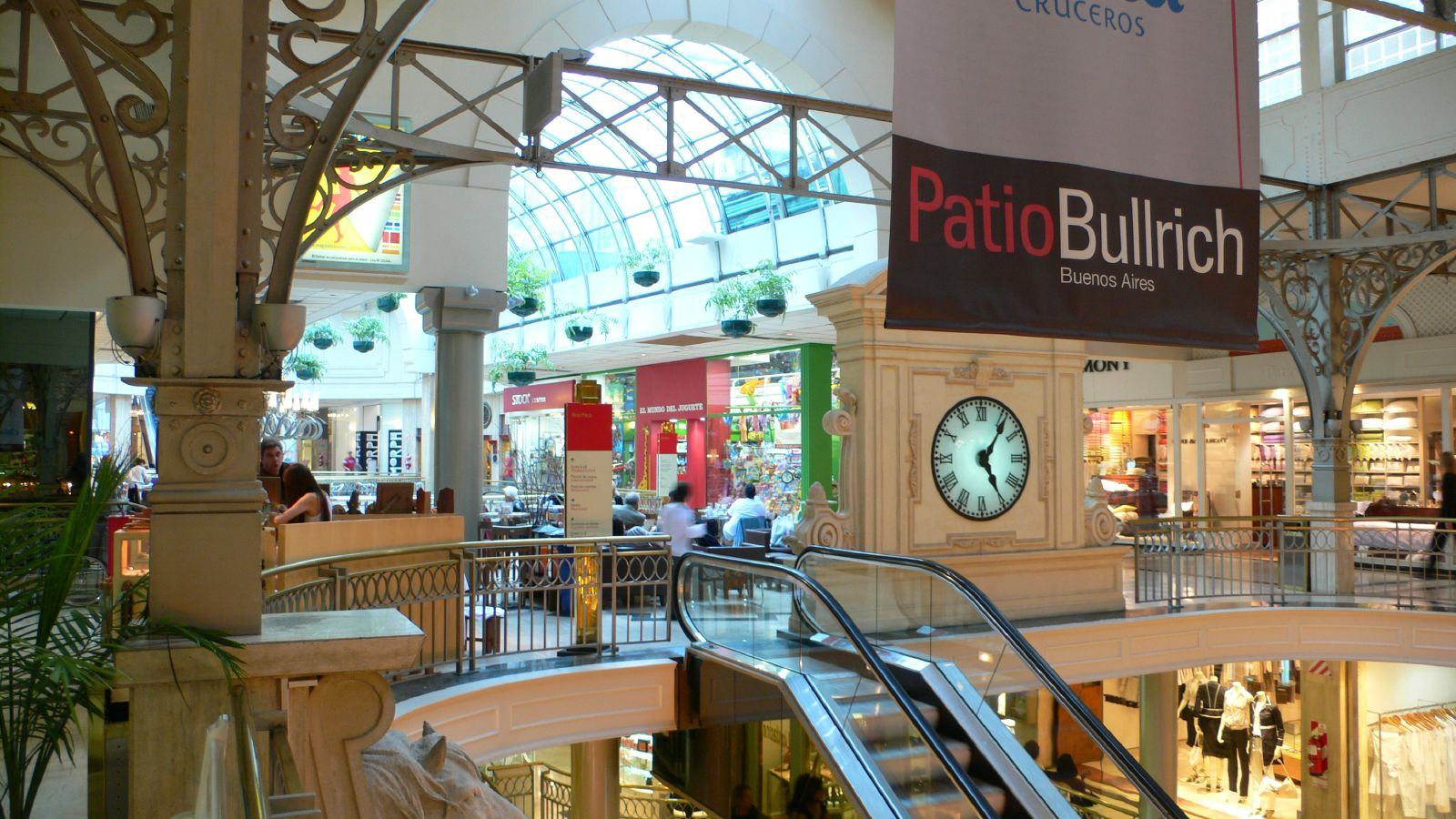 Interior view of the Patio Bullrich Shopping Arcade, Buenos Aires.